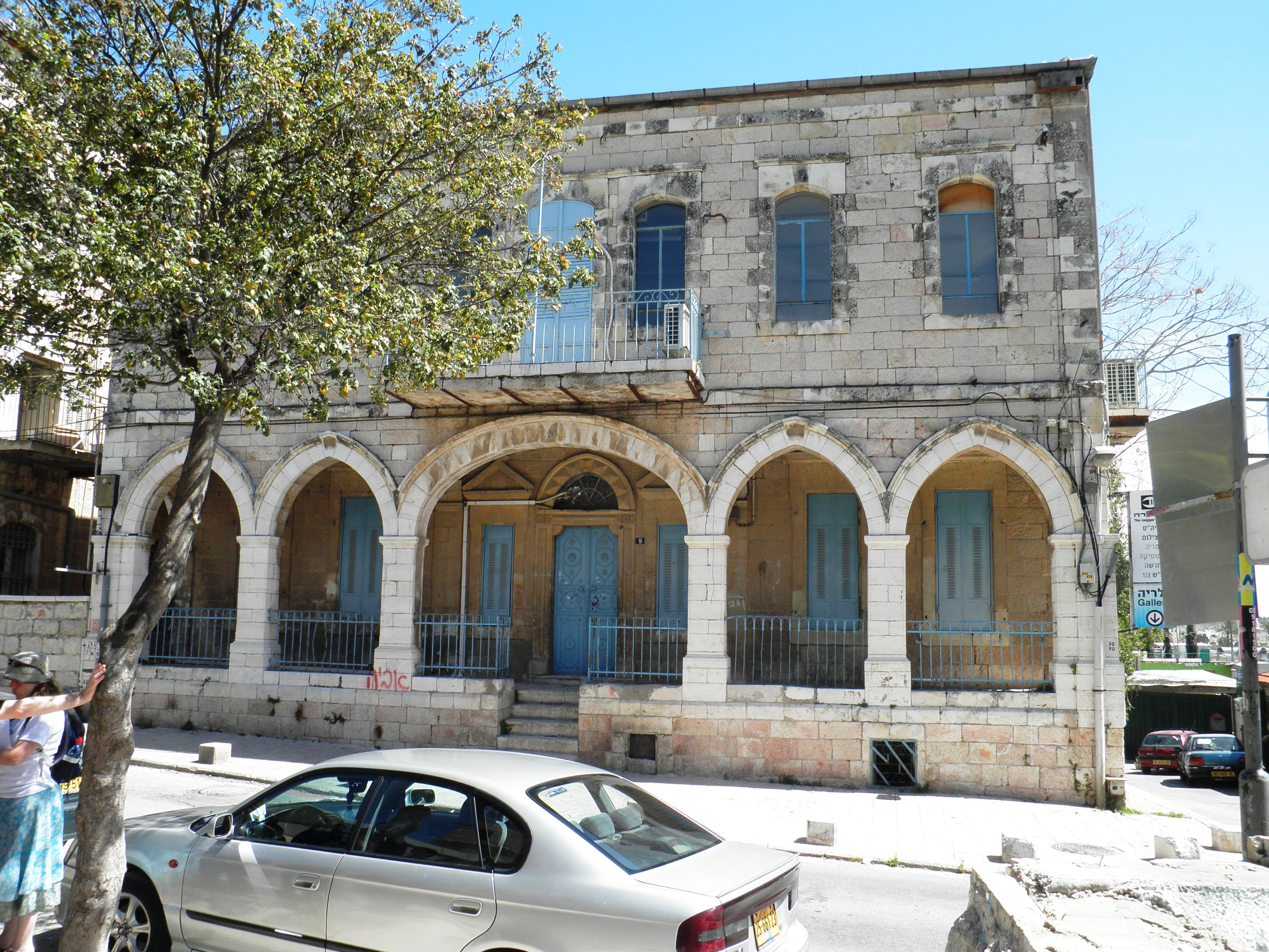 Beit Yaakov is the historical building on 9, Ha'ain Het st. in Musrara. After the 1948 war, the building was turned into a ultra orthodox Jewish school for the children of the neighborhood - whose parents were mostly immigrants from north Africa. The school closed at the end of the 1960s and is now the home of the Naggar school of photography in Musrara.